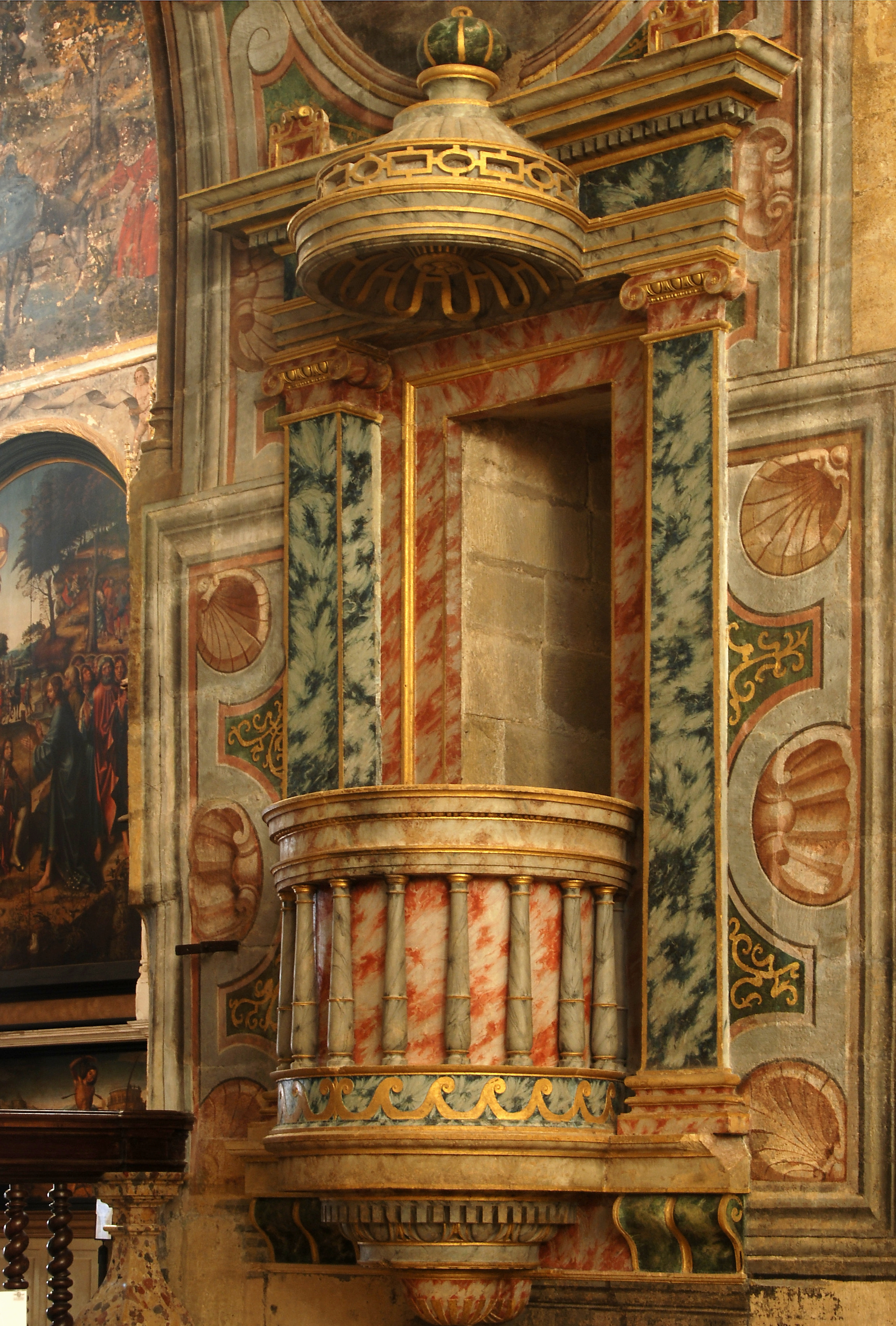 Convent of Christ, Tomar, Portugal. Manuelin pulpit (1510-1515).